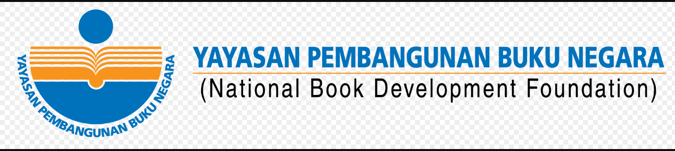 Logo of Malaysian national Book Development Foundation